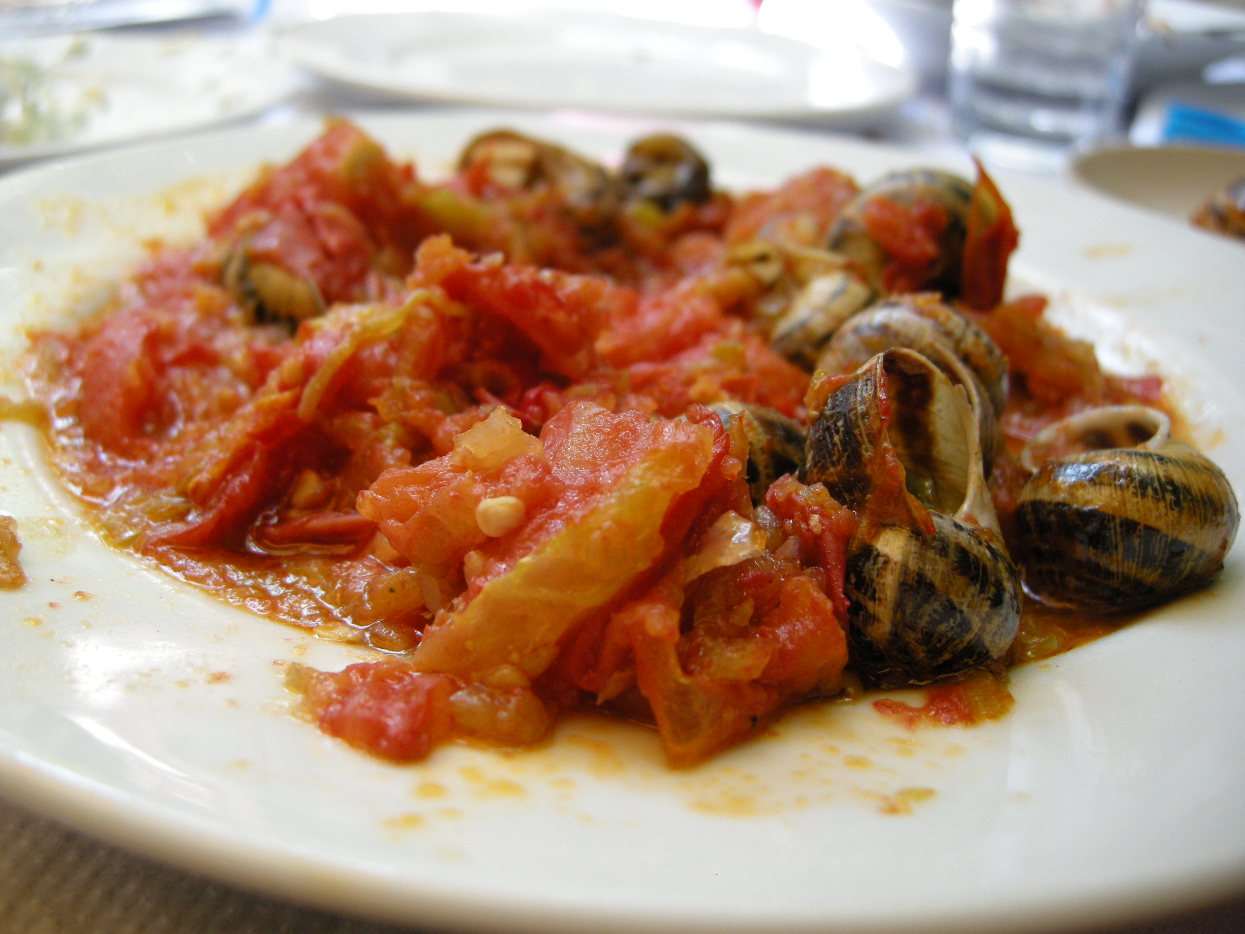 A plate of cooked snails with tomato from Crete, Greece (served in the town Agia Galini)